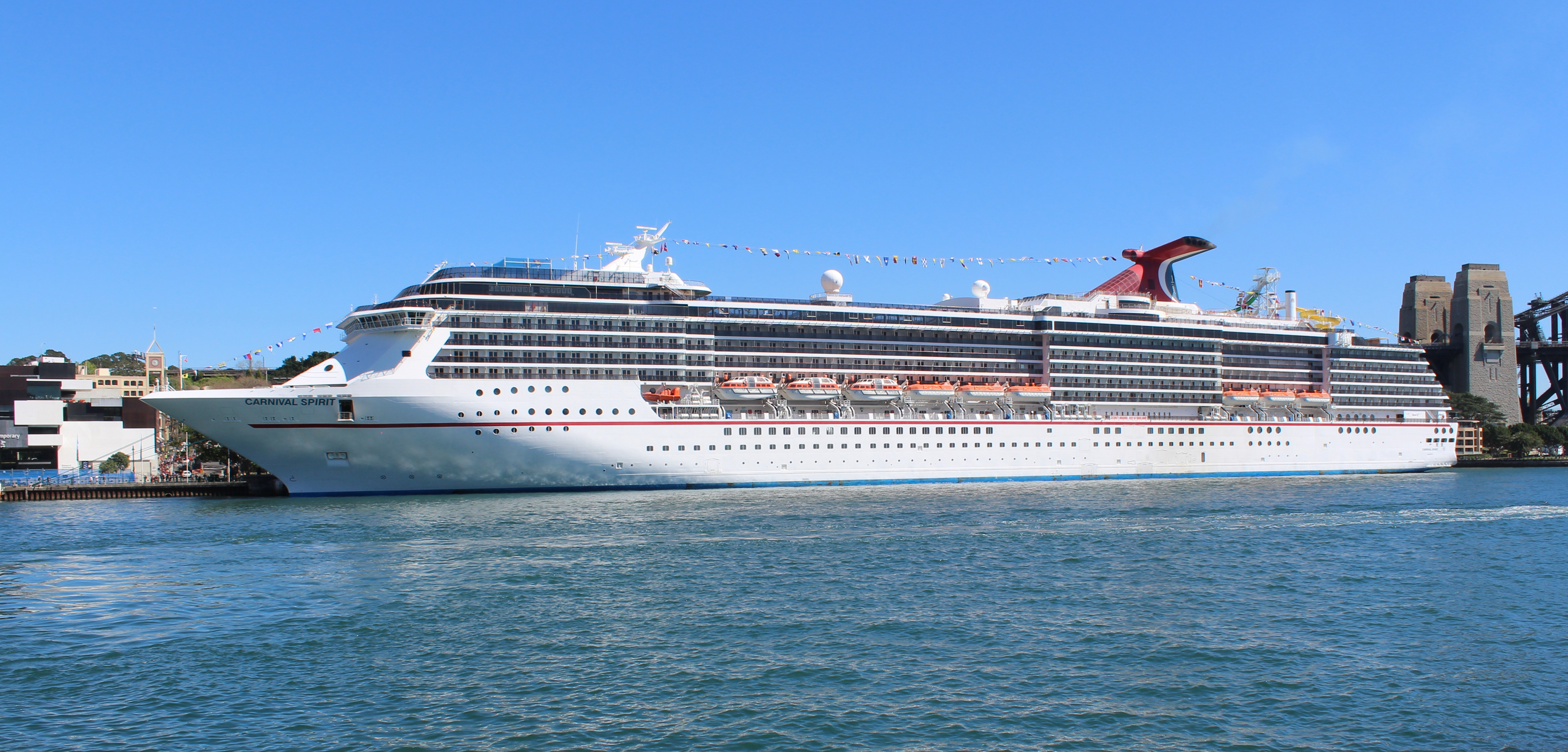 Information about the vessel may be found at IMO 9188647.A ship can change name and flag state through time, but the IMO number remains the same through the hull's entire lifetime. As a result, it can be useful to identify a ship by using the IMO number. Carnival Spirit, a 85000 tonne cruise liner docked at Sydney, Australia.